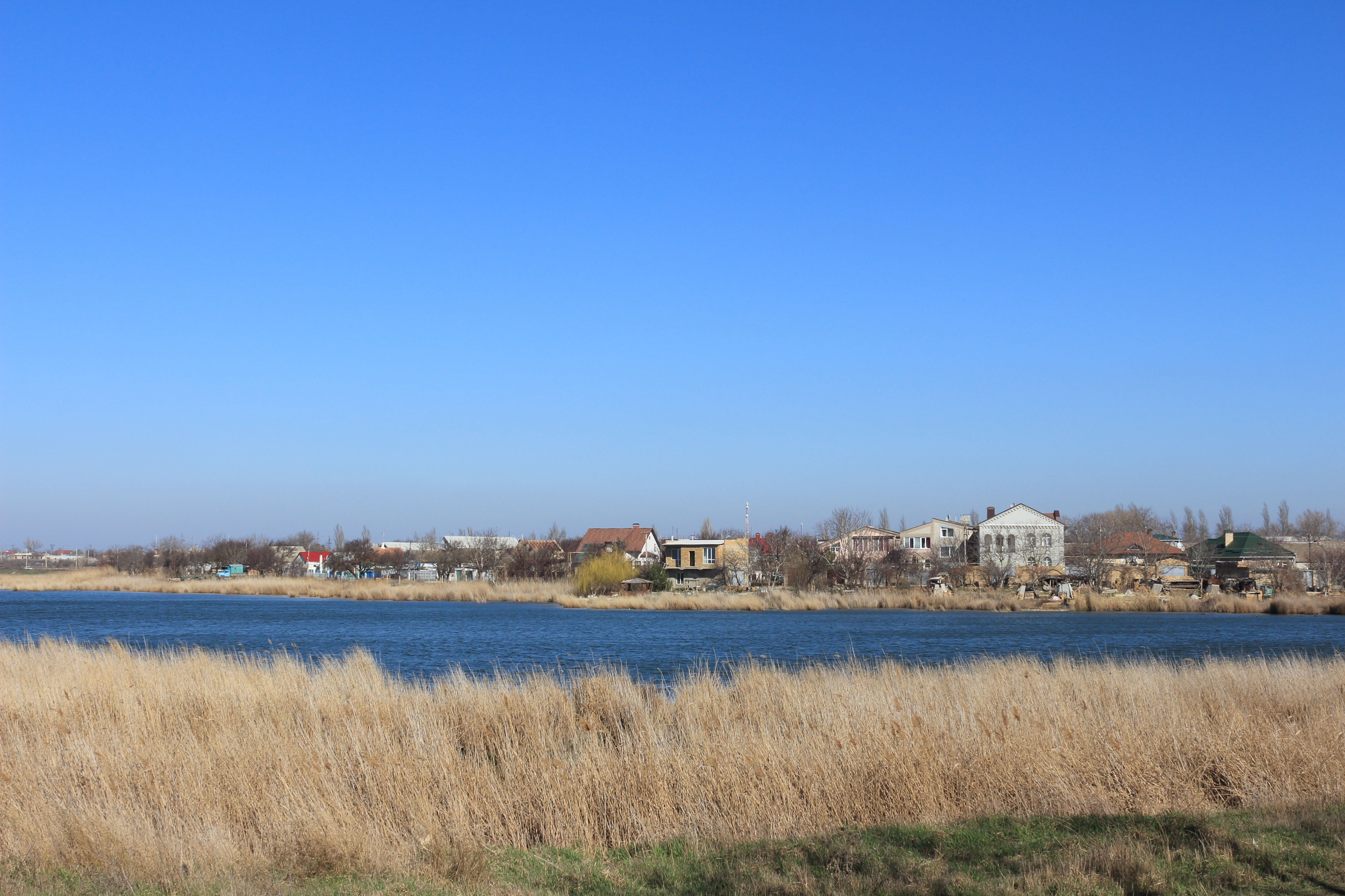 Panorama of Saky and the Saky lake (Chokrak)